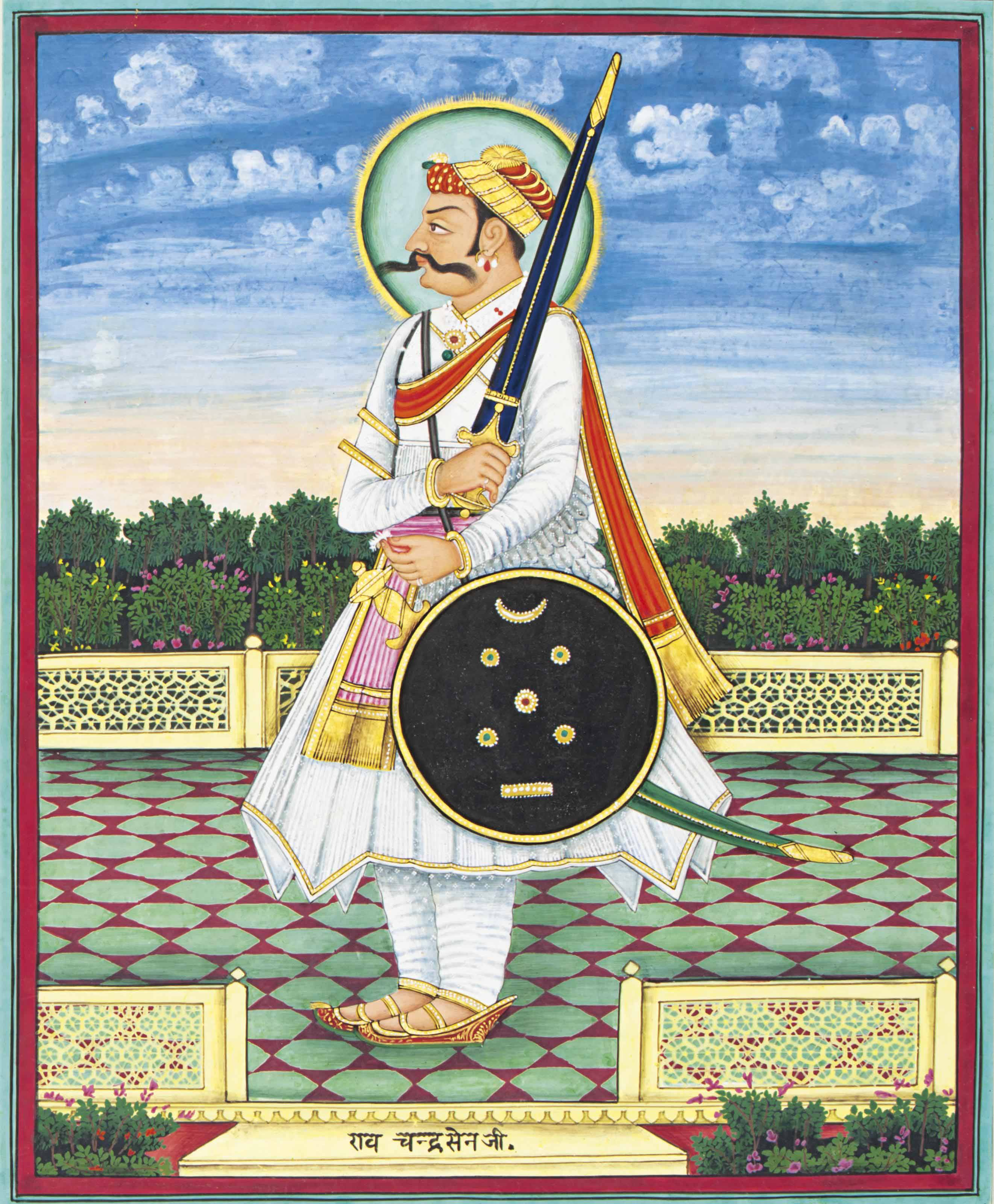 Painting of 16th century Ruler of Marwar, Chandrasen